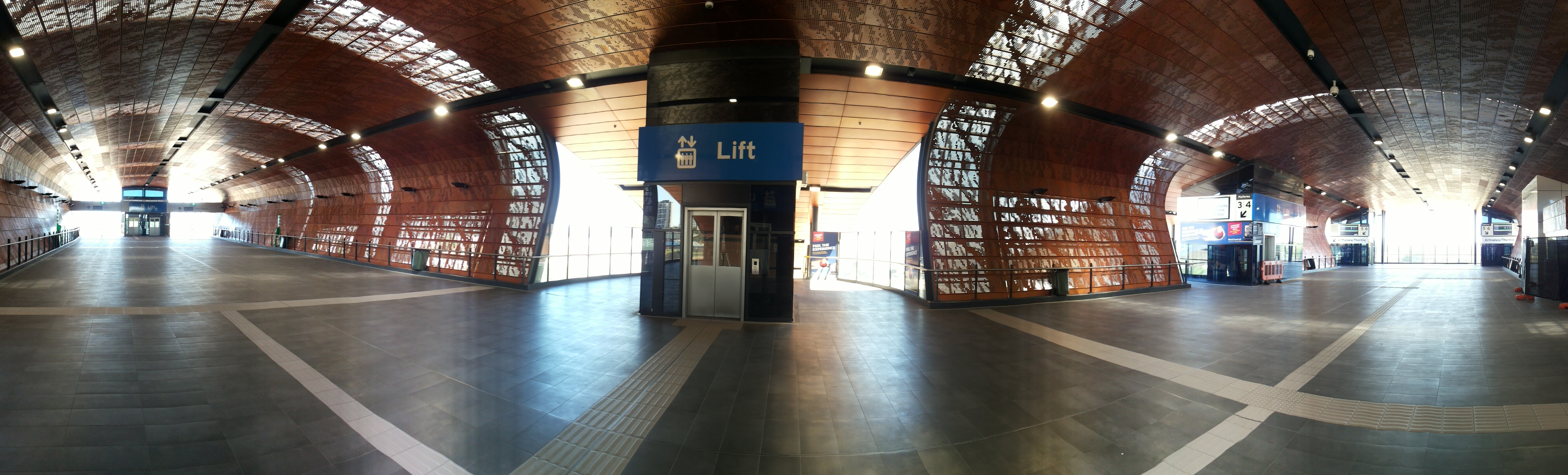 A panorama view of Perth Stadium Station (Eastern Concourse).